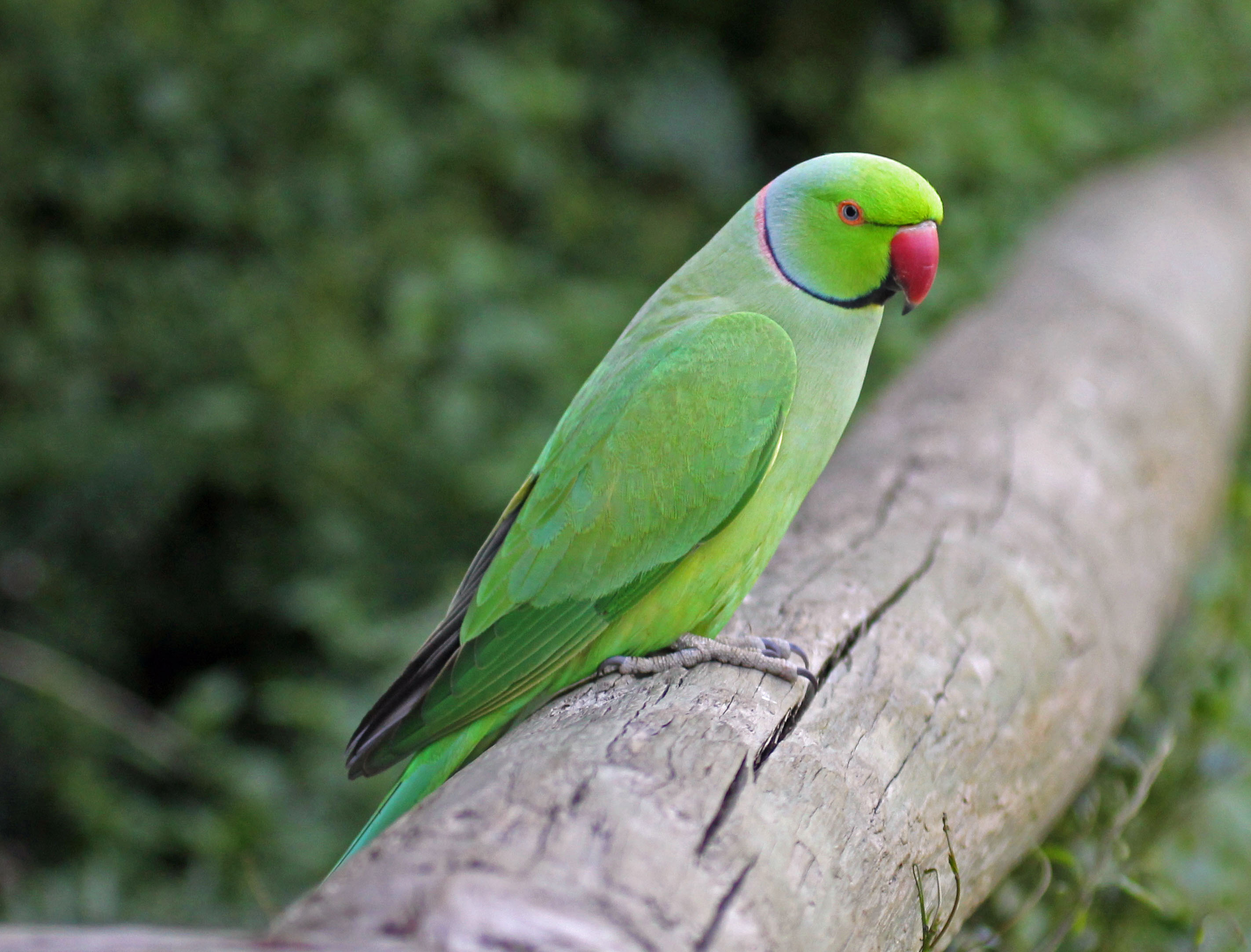 Rose-ringed Parakeet (Psittacula krameri) at Birds of Eden aviary, South Africa